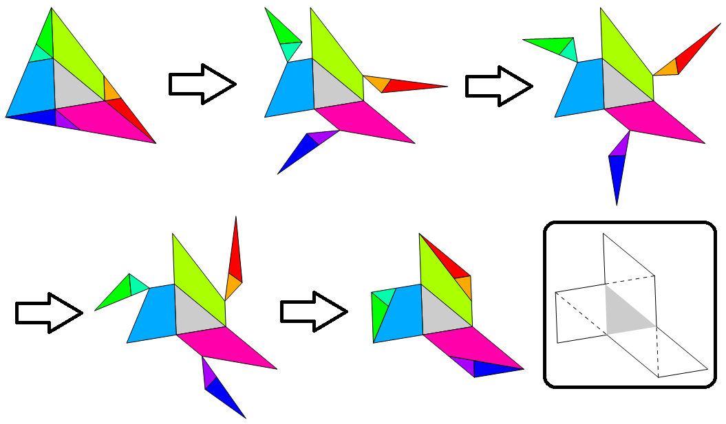 Graphical solution to the one-seventh area triangle problem.